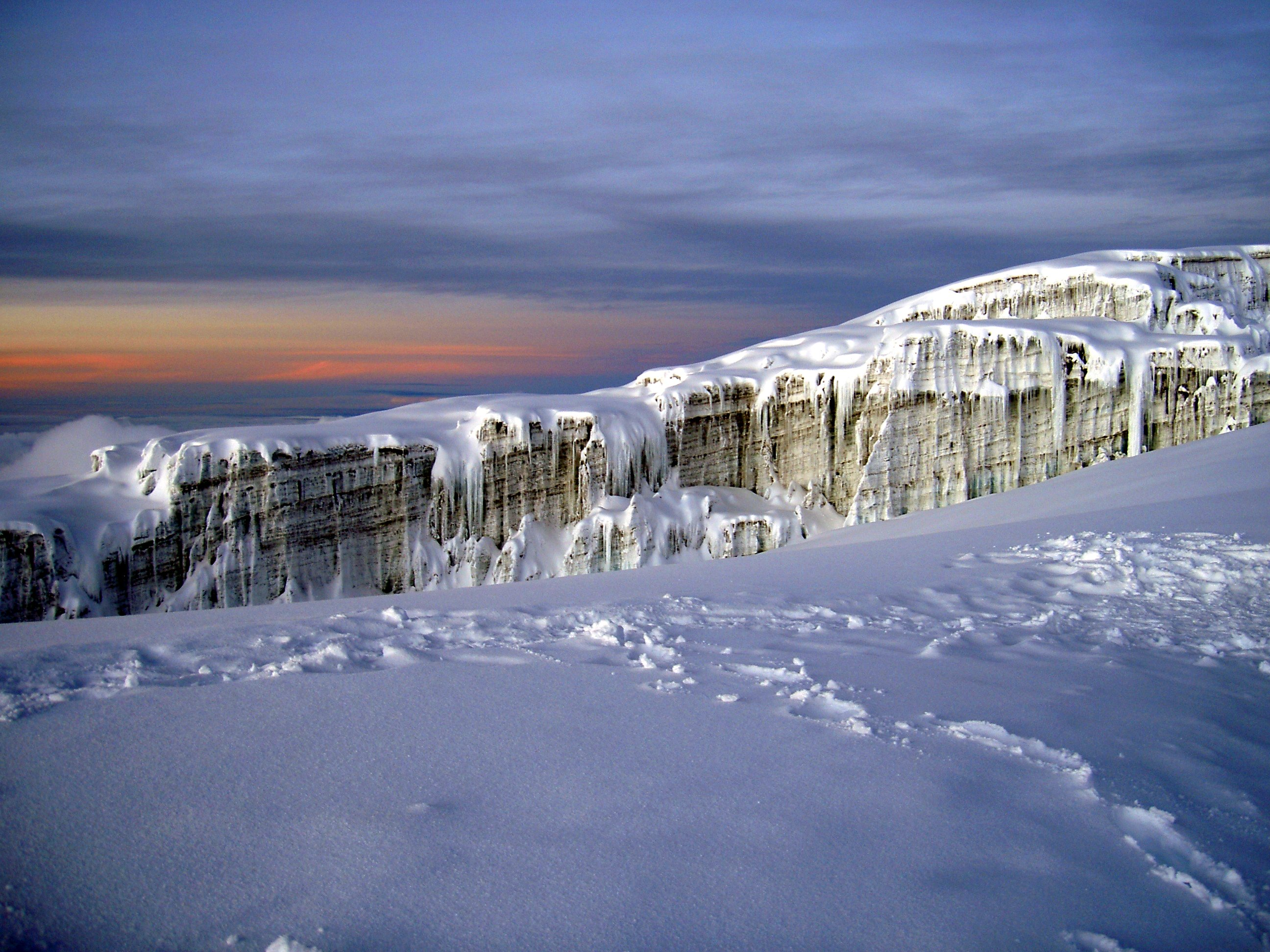 Southern glacier/Souther ice field on Mt Kilimanjaro